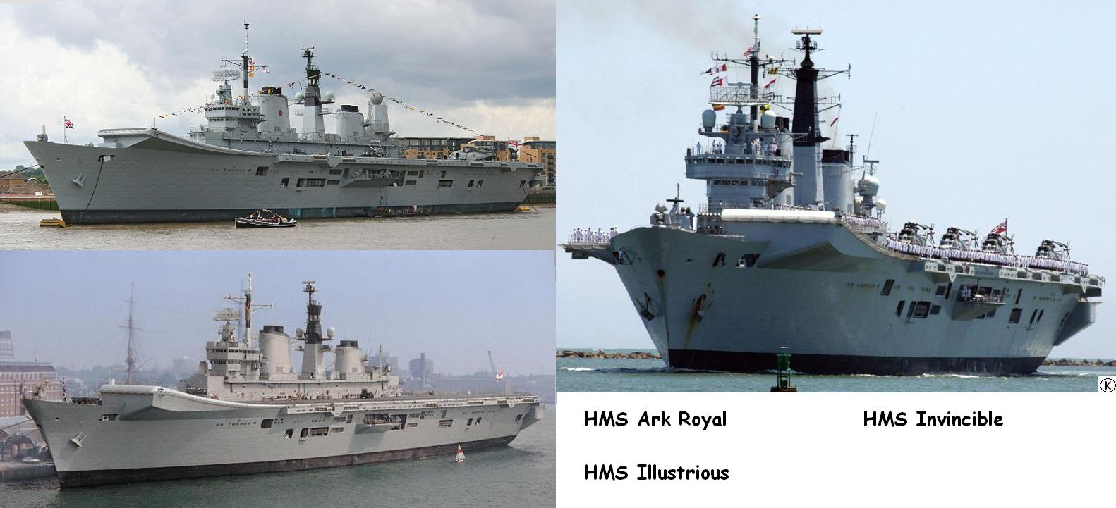 British Aircraft Carrier Class Invincible: HMS Ark Royal, HMS Illustrious and HMS Invincible.